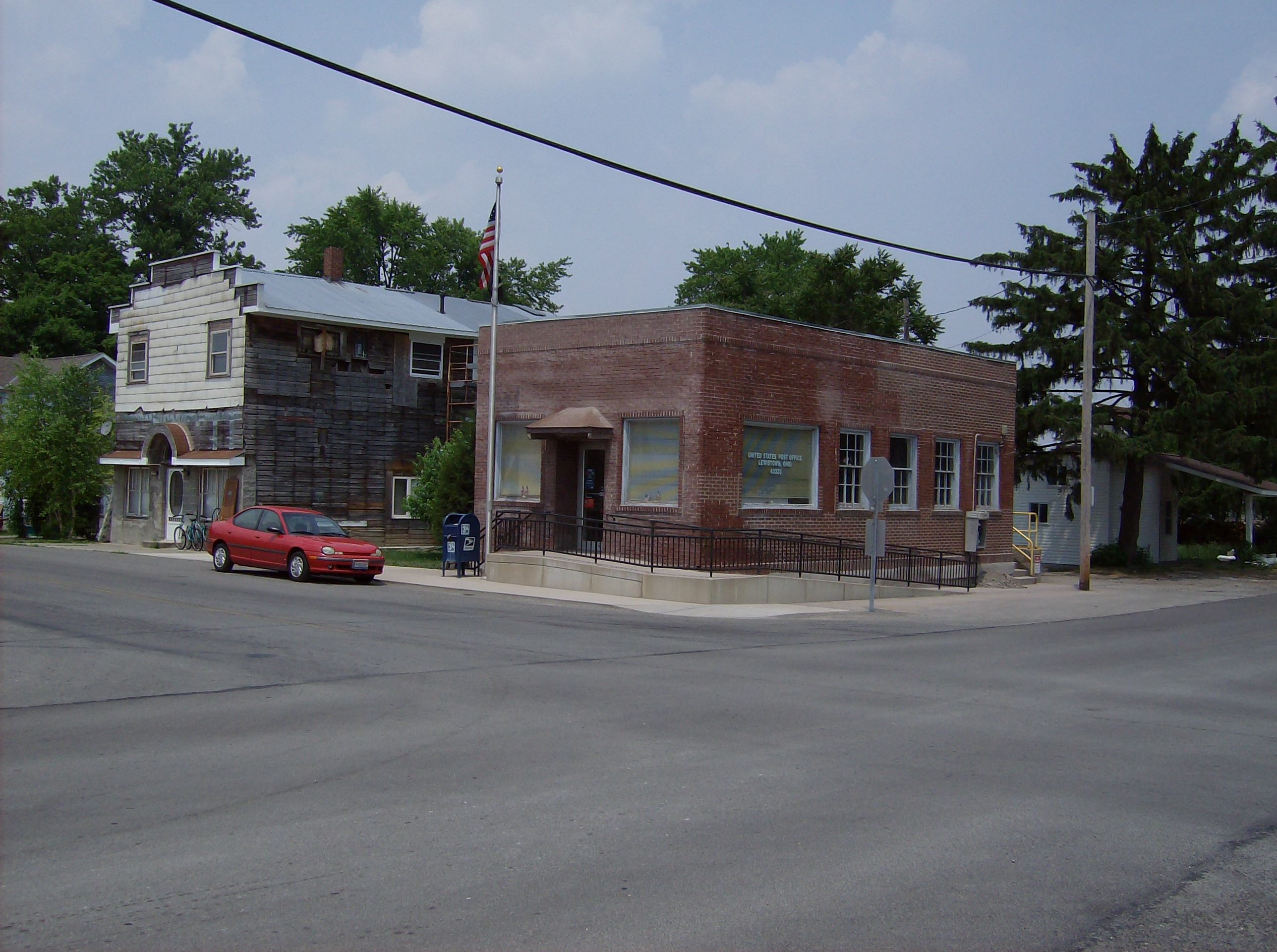 The post office and principal intersection in Lewistown, an unincorporated community in Washington Township, Logan County, Ohio, United States. The post office was built in 1910 as a bank.